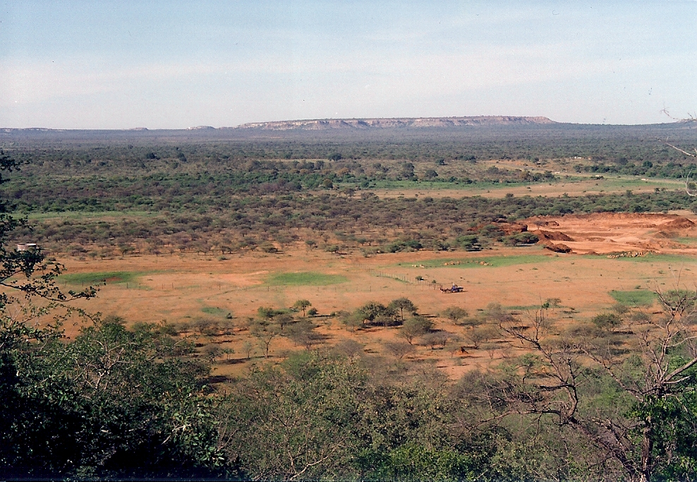 View from Swaneng Hill, Serowe, Botswana, east over the beginnings of the Kalahari. A donkey cart is visible on the plain. Taken from the grounds of Swaneng Hill School, 1995, on film.